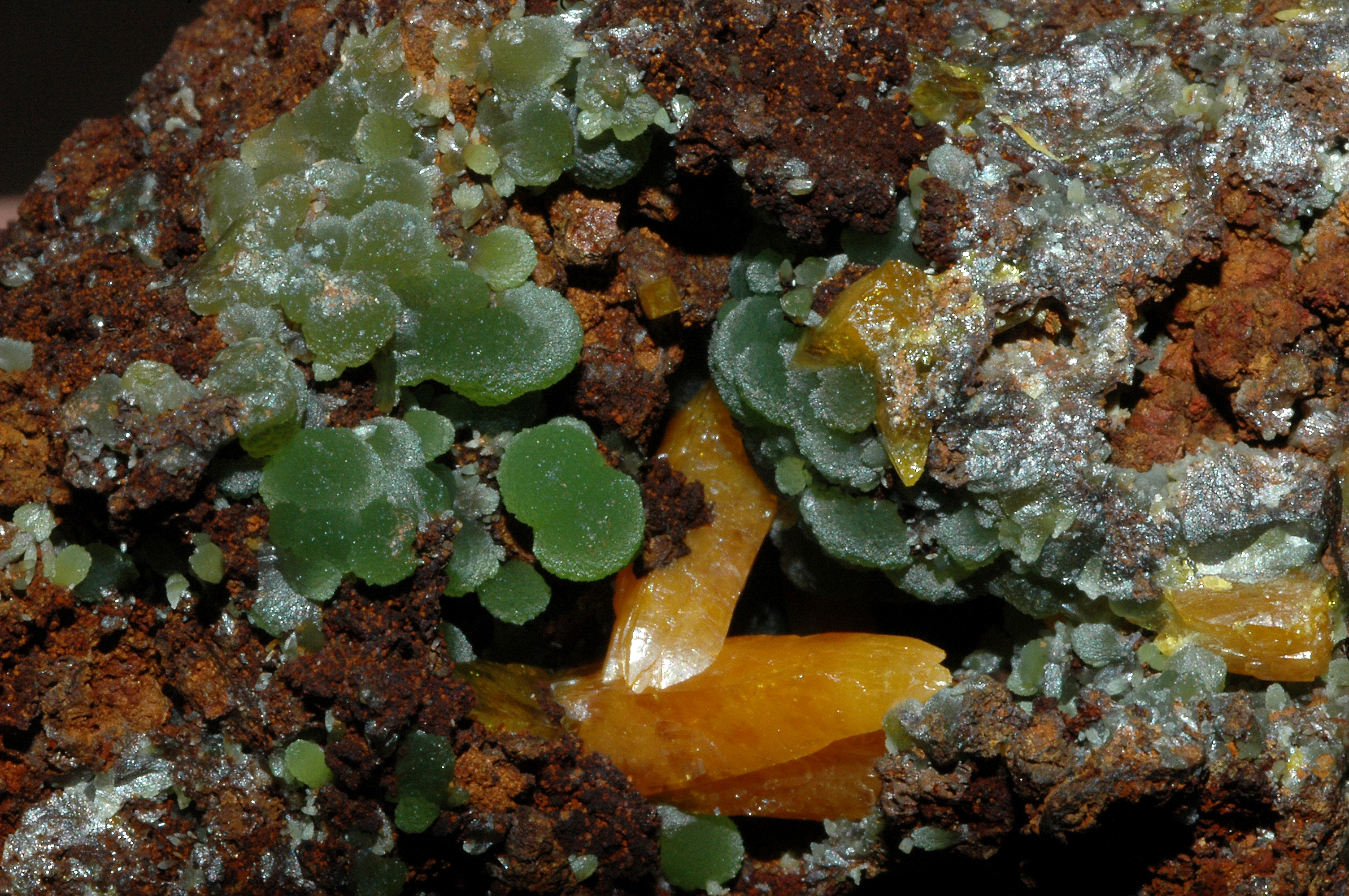 mimetite, wulfenite : Ojuela Mine, Mapimi, Municipio de Mapimi, Durango, Mexico